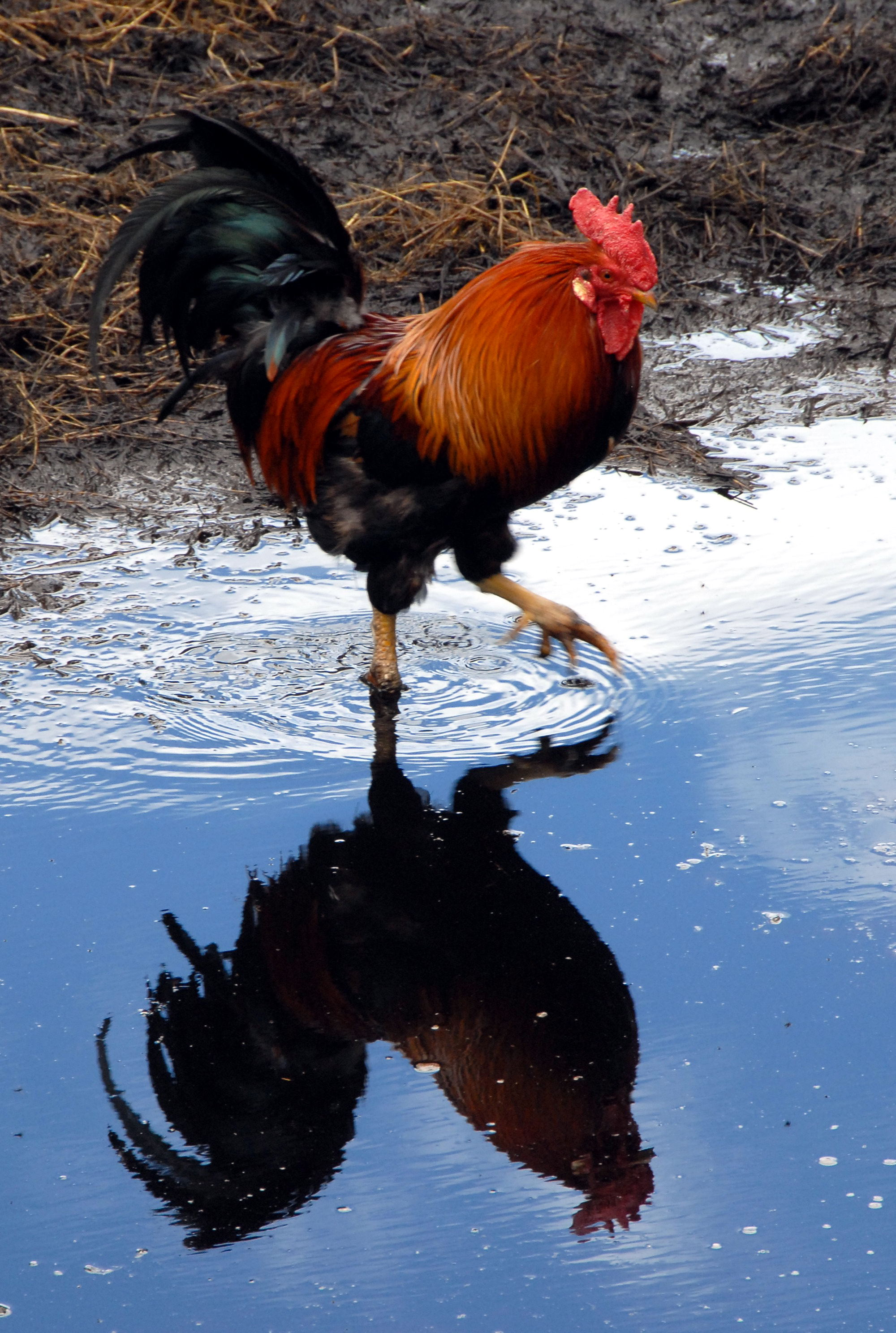 Male barn fowl in slurry, wildlife park at Feld am See, Carinthia, Austria